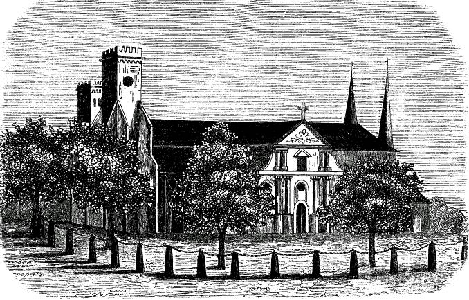 the Skara Cathedral in 1864